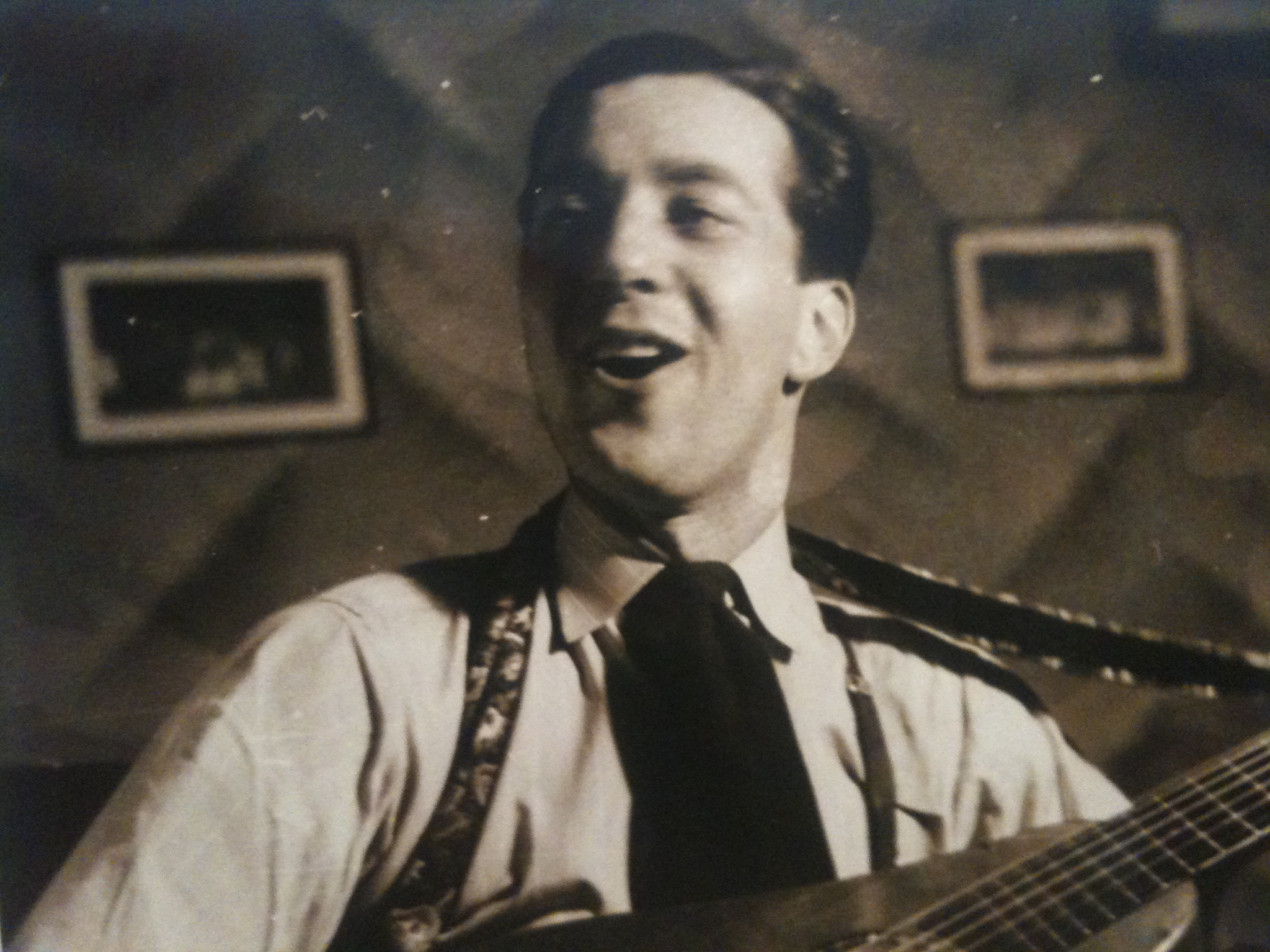 Norwegian singer-songwriter and actor Jens Gunderssen (1912-1969). Back of photo marked with "Oslo 47"